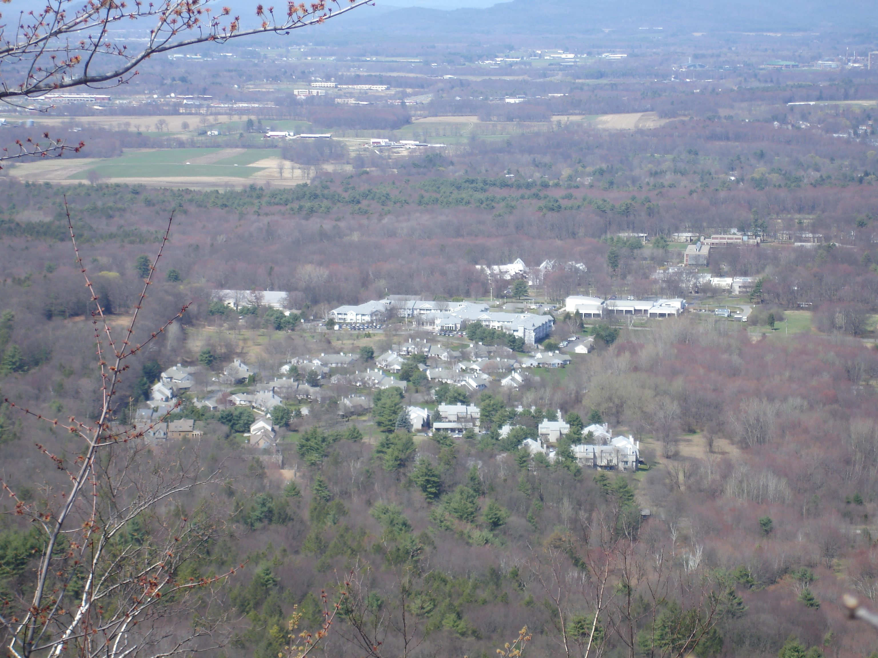 A view of Hampshire College from Bare Mountain. The University of Massachusetts Amherst can be seen in the background.